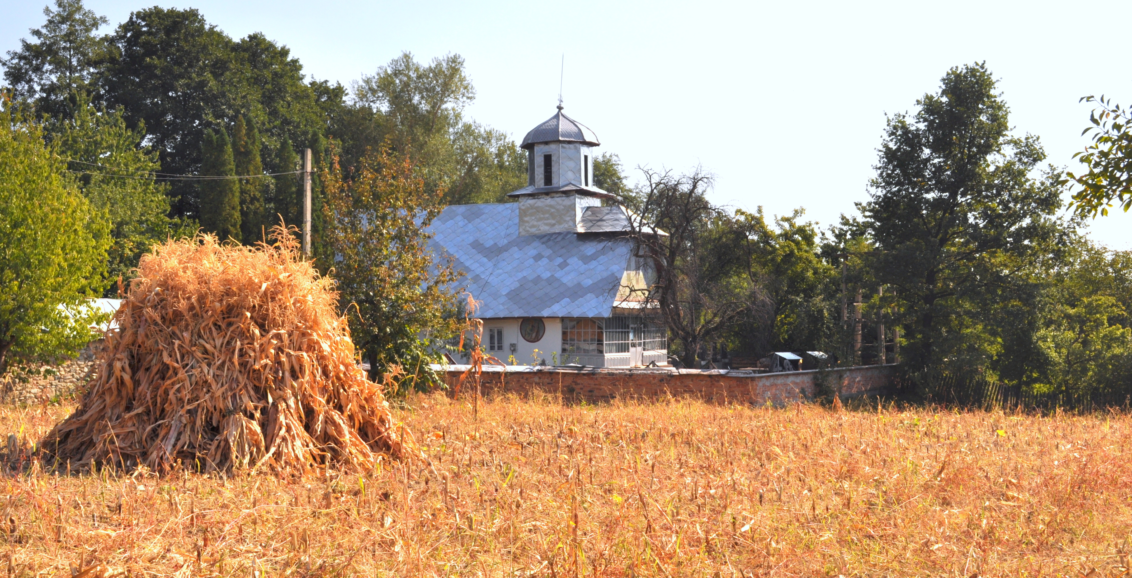 Wooden church of Pious Saint Parascheva in Cărpiniș, Gorj county, Romania